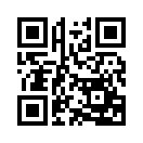 QR-code for wapedia.mobi